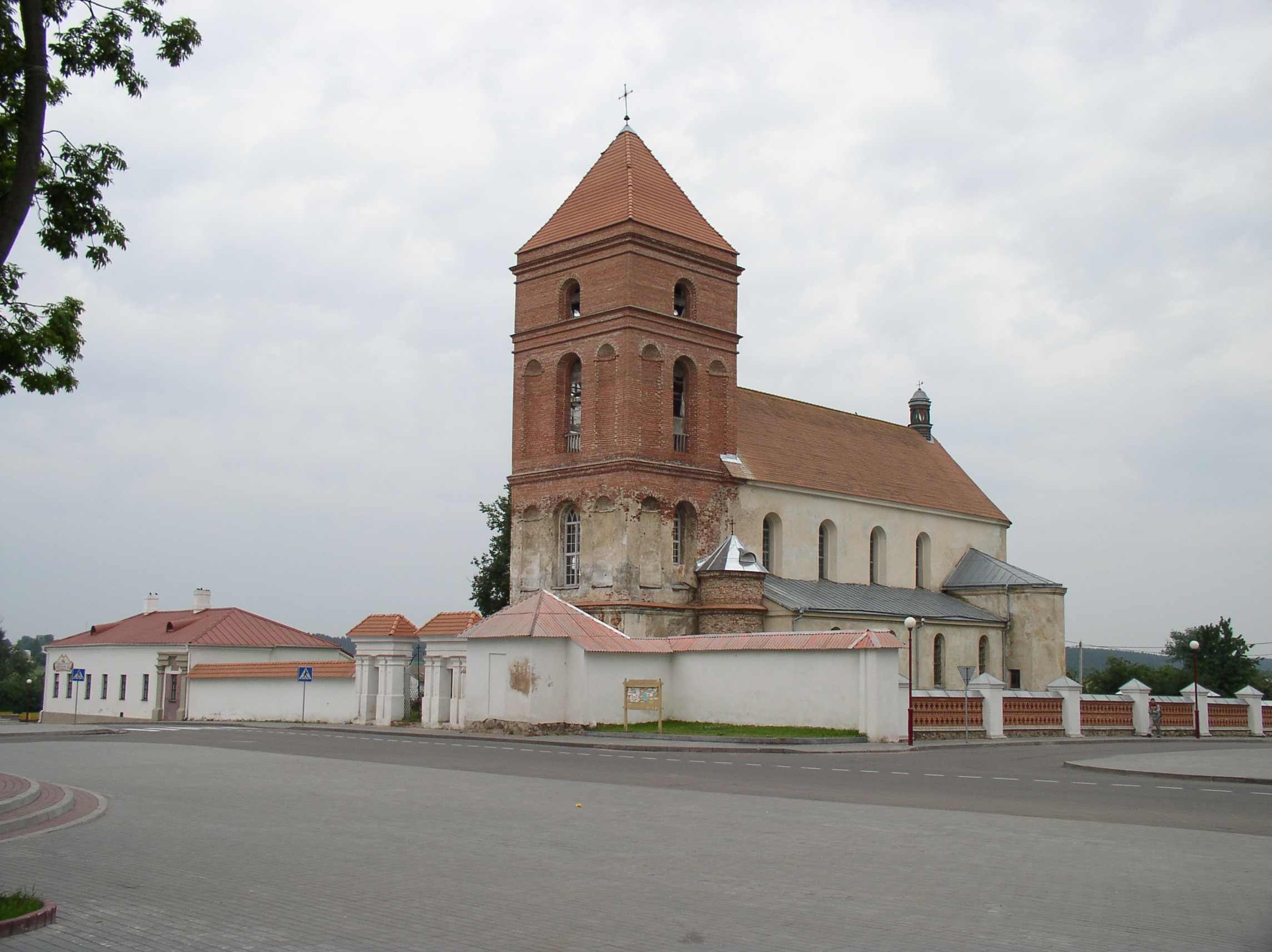 Church of Saint Bishop Nicholas. Mir, Belarus.